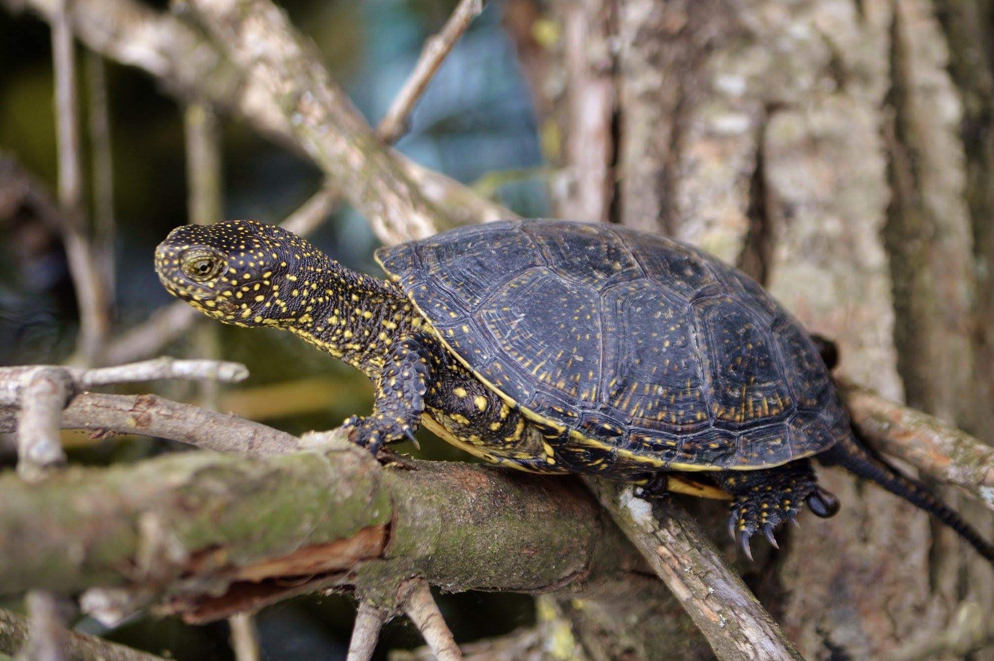 This is a photography of Natura 2000 protected area with ID GR1230003